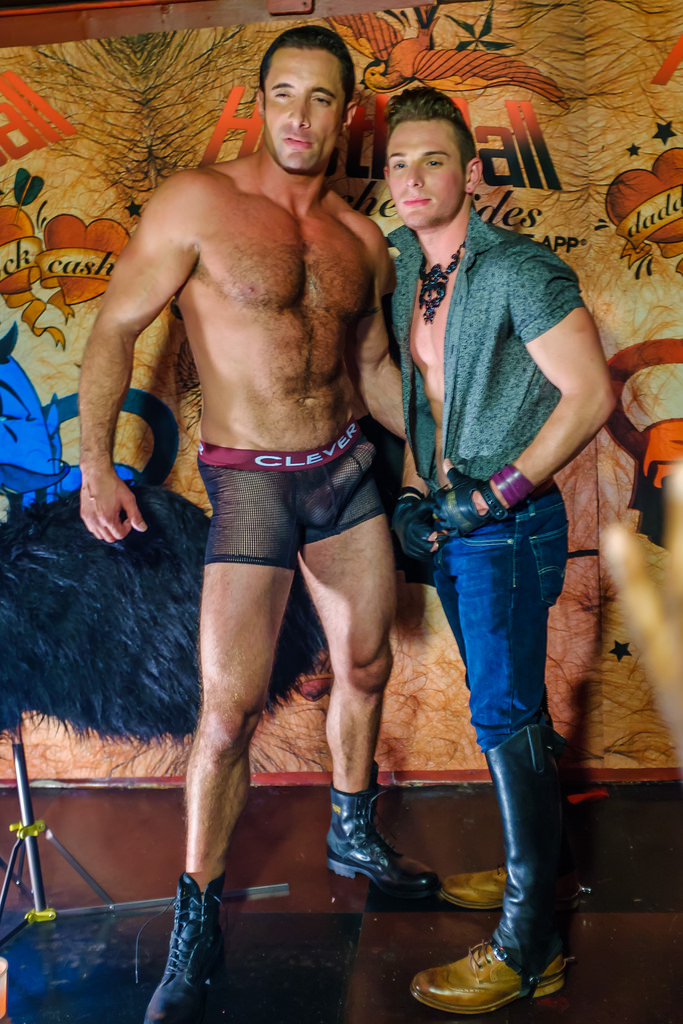 Nick Capra and Brent Corrigan at Hustlaball NYC 2014